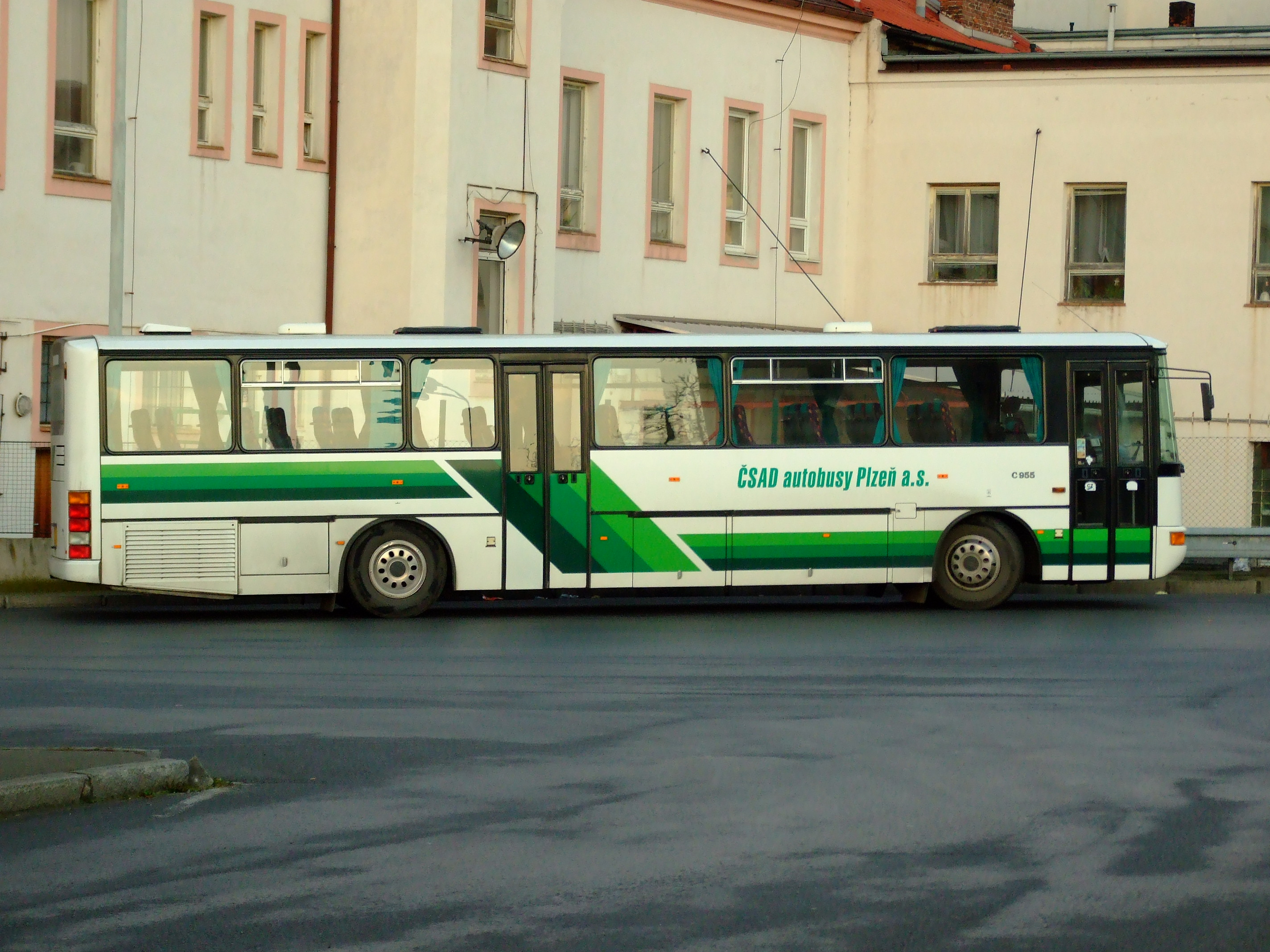 Public transport in Pilsen, CZhelp